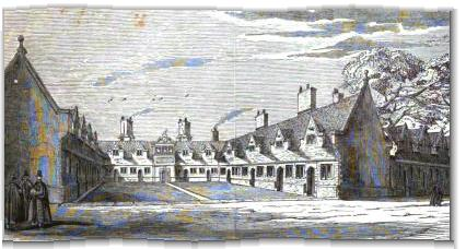 Etwall Hospital as foundd by Sir John Port the younger in Etwall, Derbyshire. John was also the founder of Repton School in Repton.